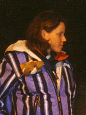 Swedish alpine skier Ylva Nowén during the public draw for the second slalom in Semmering (Austria) on December 29th, 1996.